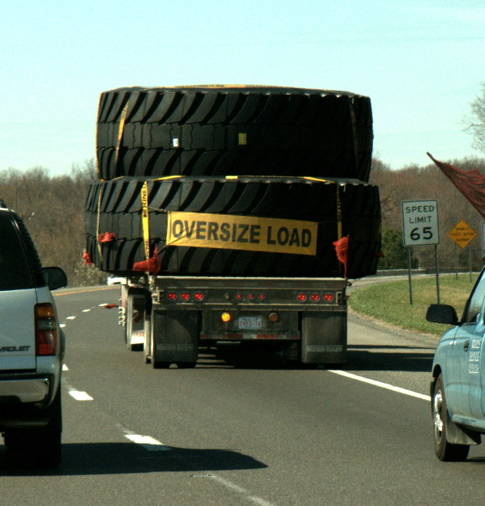 Three huge tires on a flatbed truck - cc-by-2.0 on Flickr